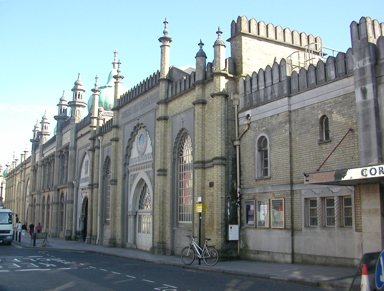 The Corn Exchange and Dome complex, Church Street/New Road, Brighton, City of Brighton and Hove, England. The former stables of the Royal Pavilion; now a theatre complex. Listed at Grade I by English Heritage (IoE Code 480511)